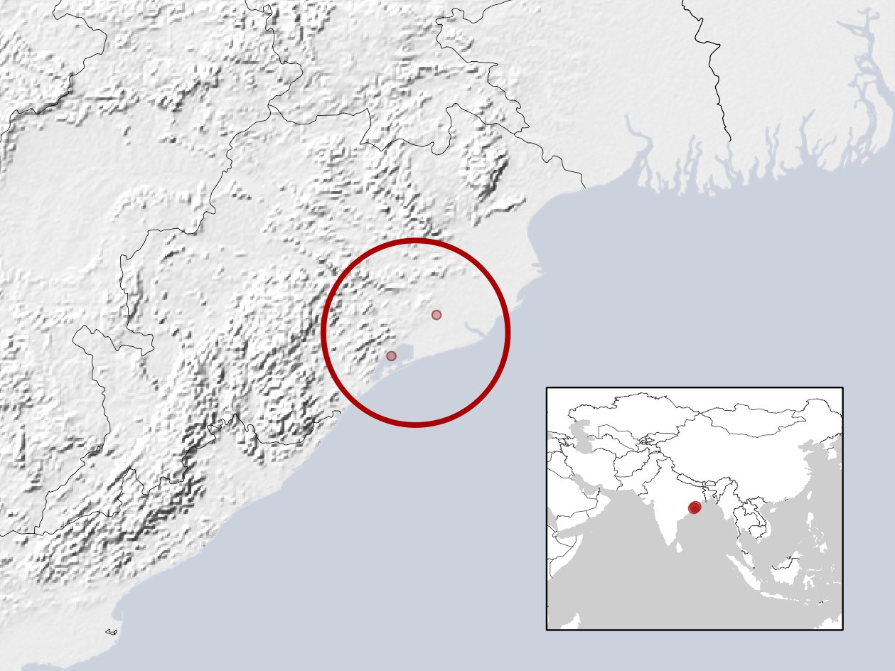 geographic distribution of Barkudia insularis